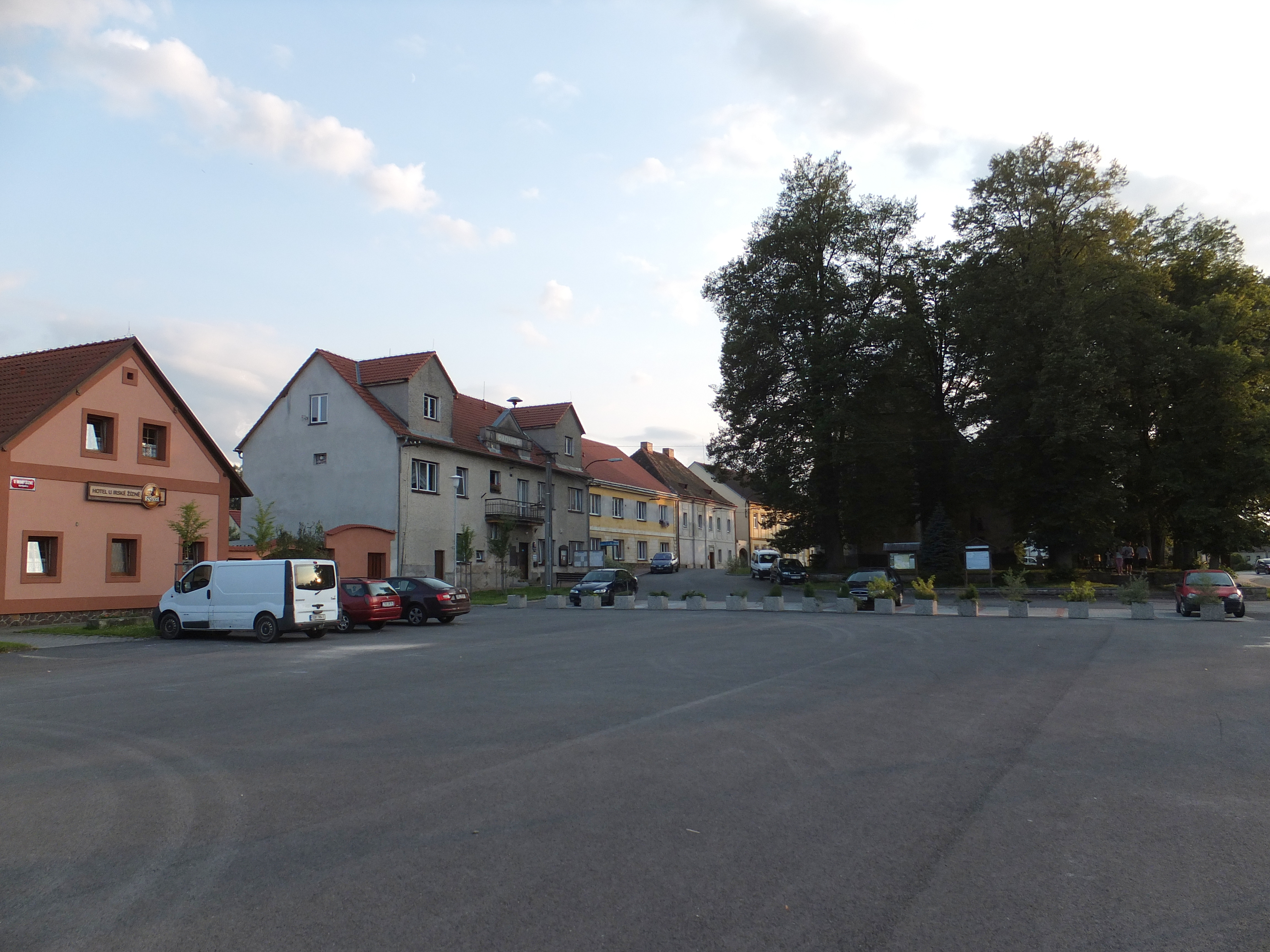 Rapšach - the southern side of the square